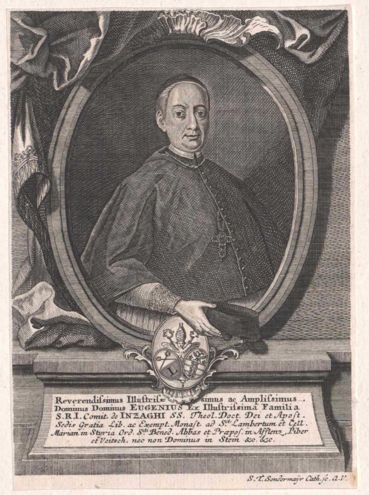 Eugen Count Inzaghi (1689–1760), Austrian Benedictine and abbot of St. Lambrecht's Abbey. Copperplate